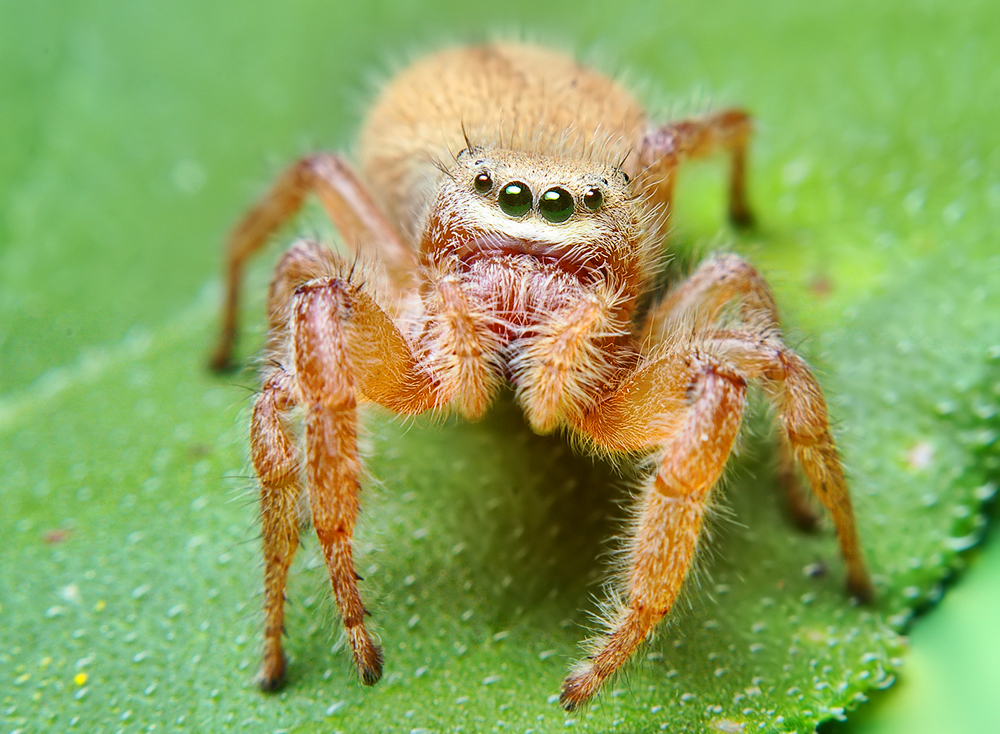 Macrophotograph of an adult female Phidippus pius found in Oklahoma.